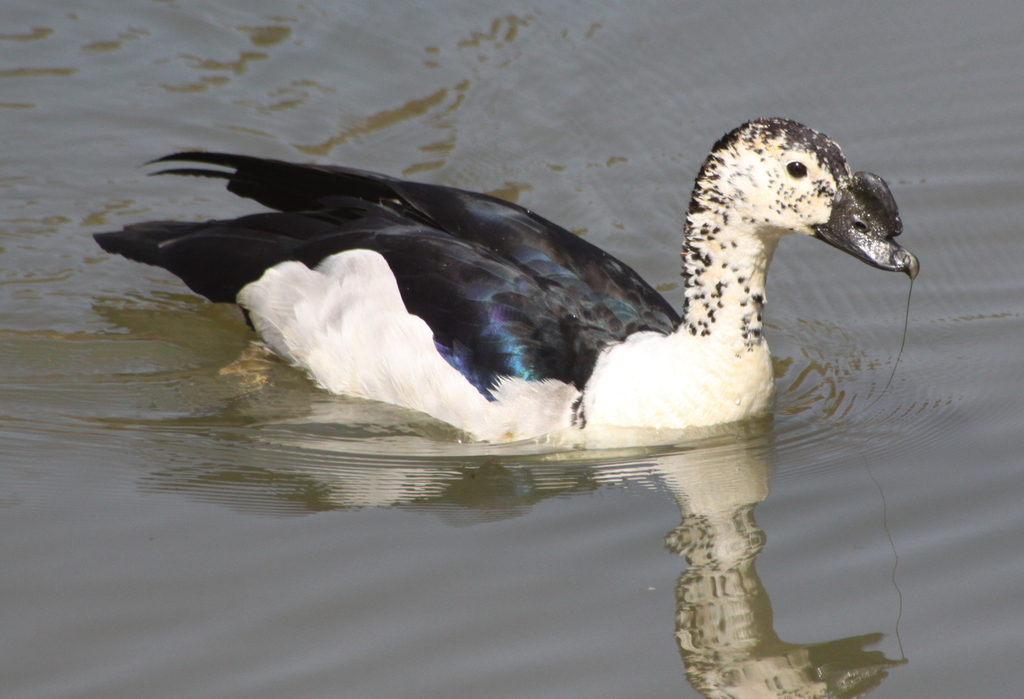 A male Knob-billed Duck swimming.